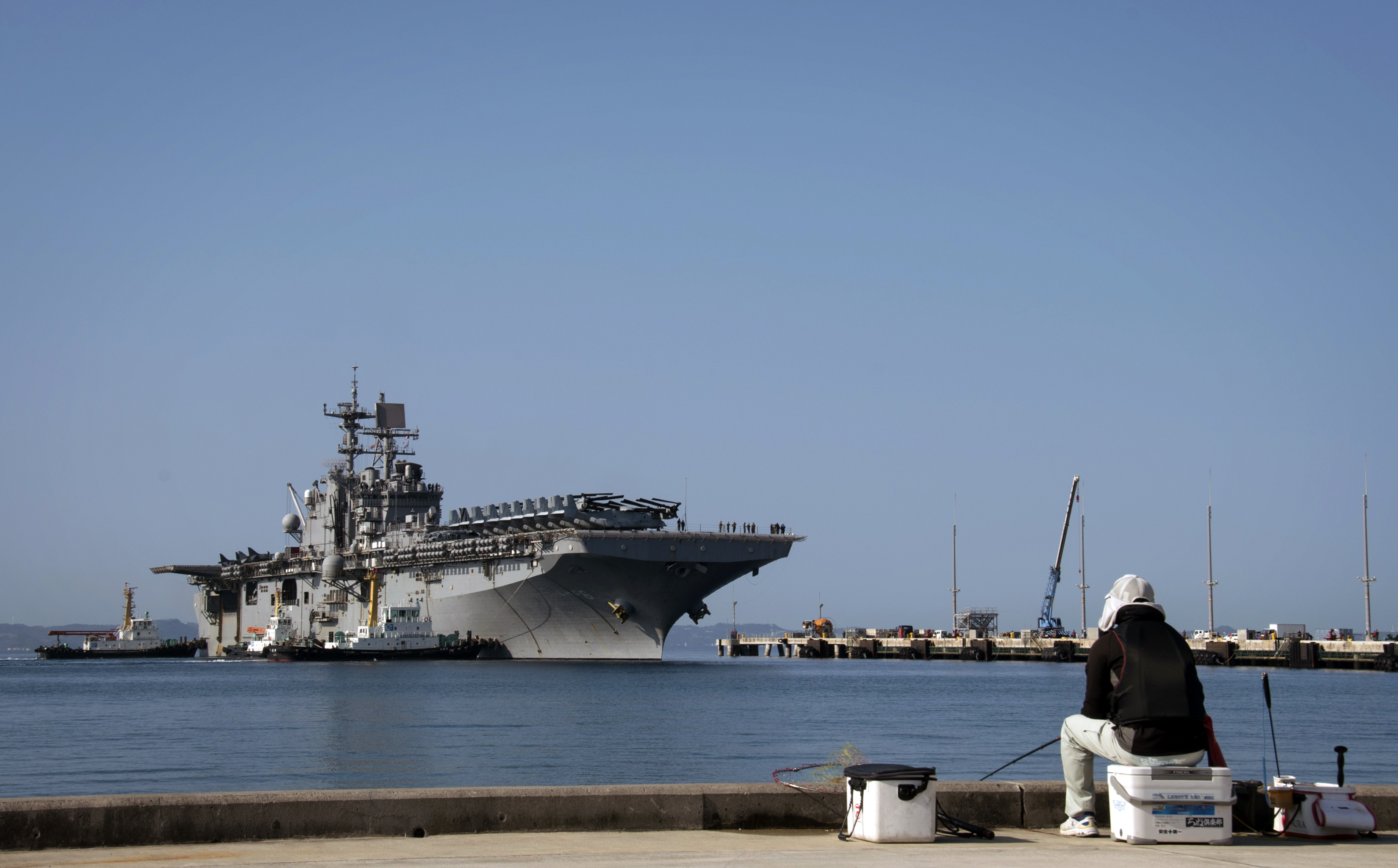 OKINAWA, Japan (March 4, 2017) The amphibious assault ship USS Bonhomme Richard (LHD 6) arrives at White Beach Naval Facility for a port visit. Bonhomme Richard is on a routine patrol operating in the Indo-Asia-Pacific region to serve as a forward-capability for any type of contingency. (U.S. Navy photo by Mass Communication Specialist 2nd Class Diana Quinlan/Released)170304-N-WF272-382 Join the conversation: navylive.dodlive.mil